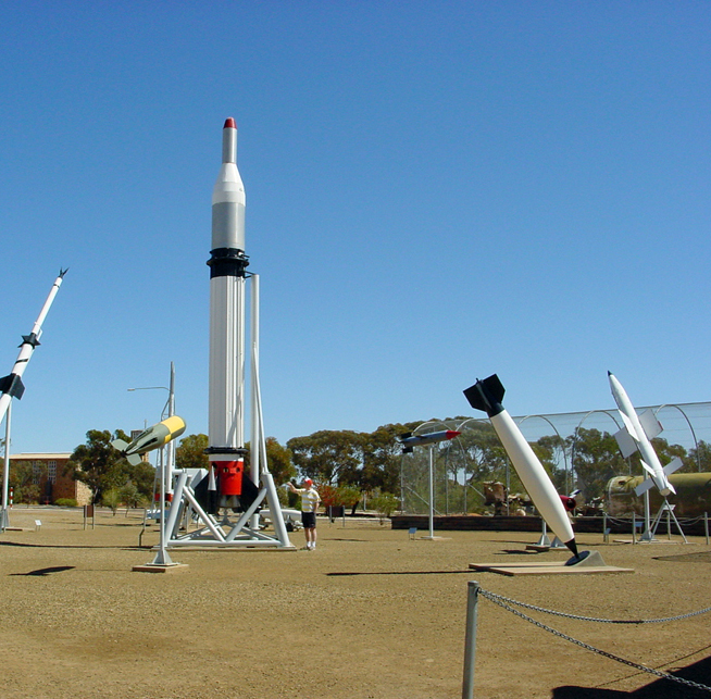 Australia - Woomera Missile Park